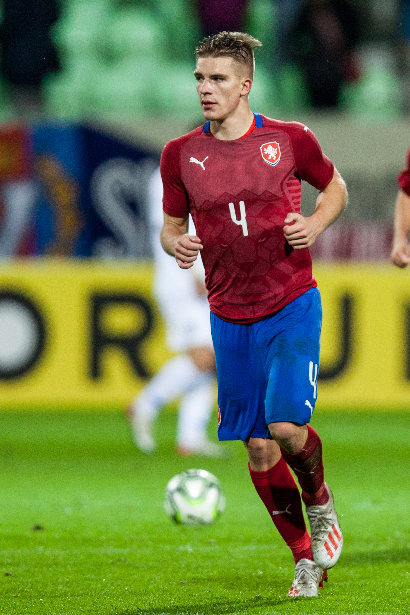 Libor Holík in an internatinoal association football match of European Under-21 Championship Qualifying Round between the Czech Republic and Greece, Městský stadion Karviná, Karviná District, Moravian-Silesian Region, Czechia Personality rights warningAlthough this work is freely licensed or in the public domain, the person(s) shown may have rights that legally restrict certain re-uses unless those depicted consent to such uses. In these cases, a model release or other evidence of consent could protect you from infringement claims.